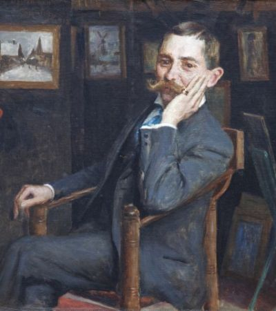 Zelfportret